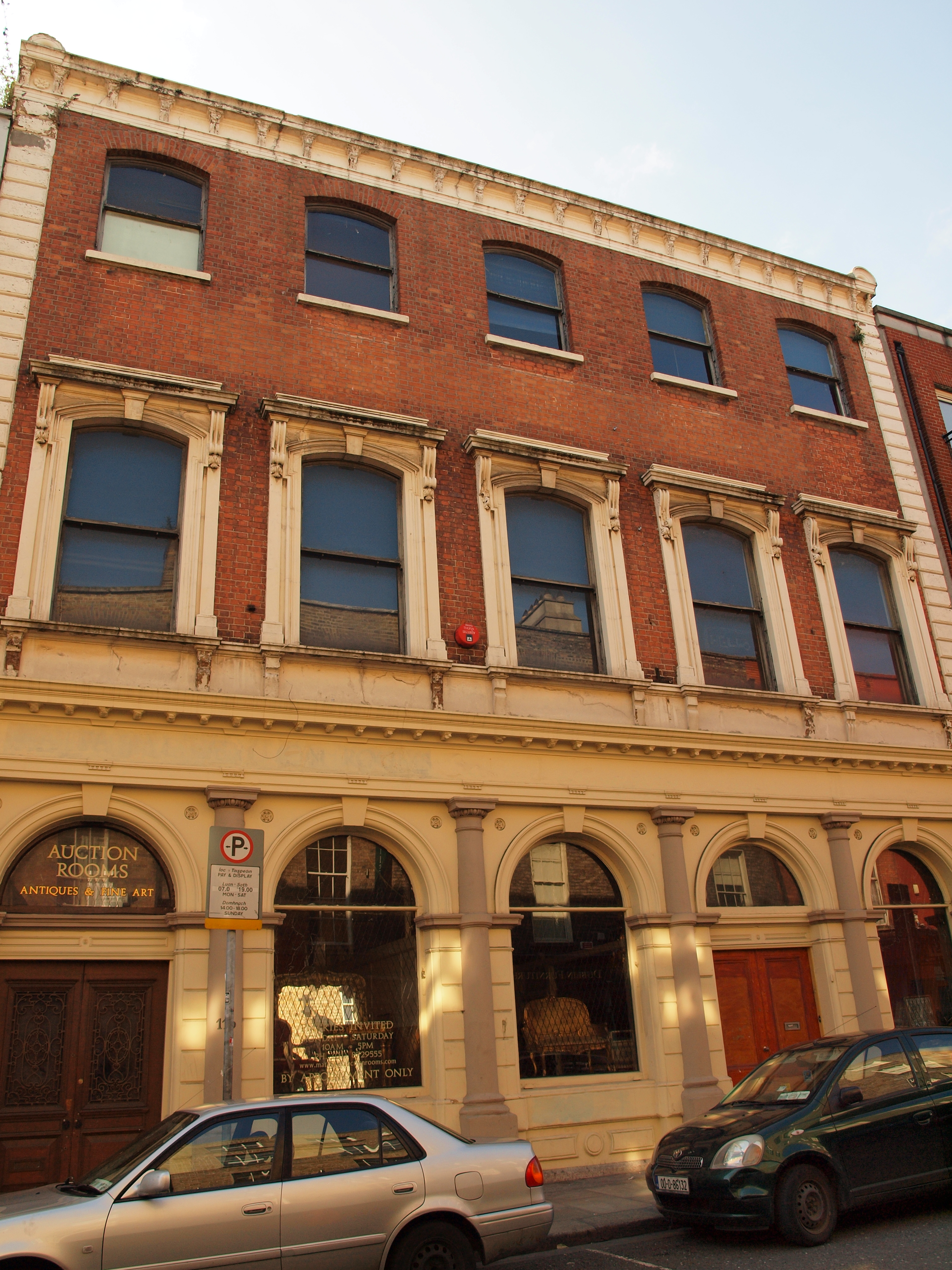 Building which once housed the Torch Theatre